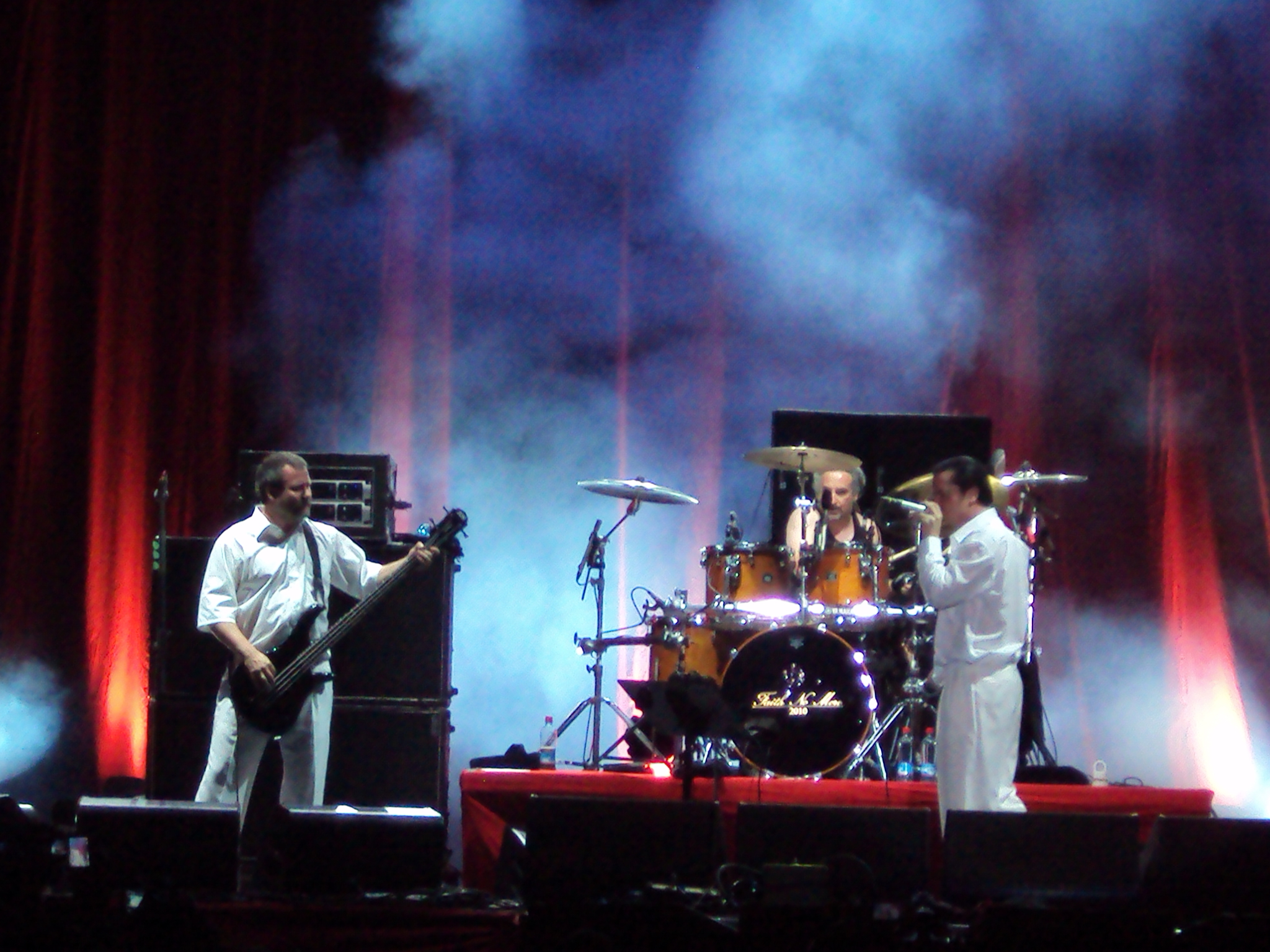 Faith no More in the Last Reunited 2.0 Show in Santiago de Chile